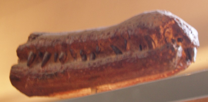 Jaws of Rhamphosuchus, an early gharial